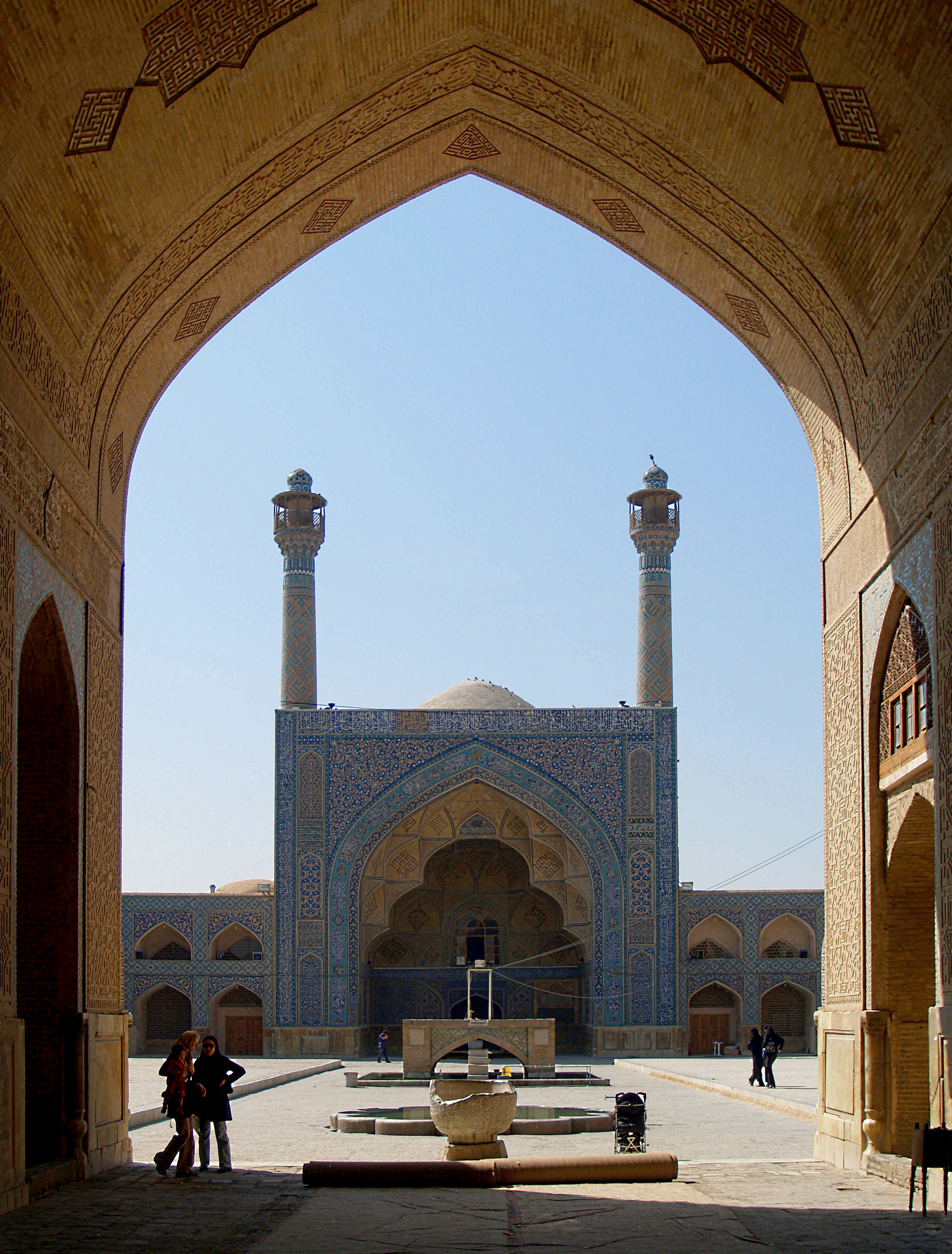 Jameh Mosque, Isfahan